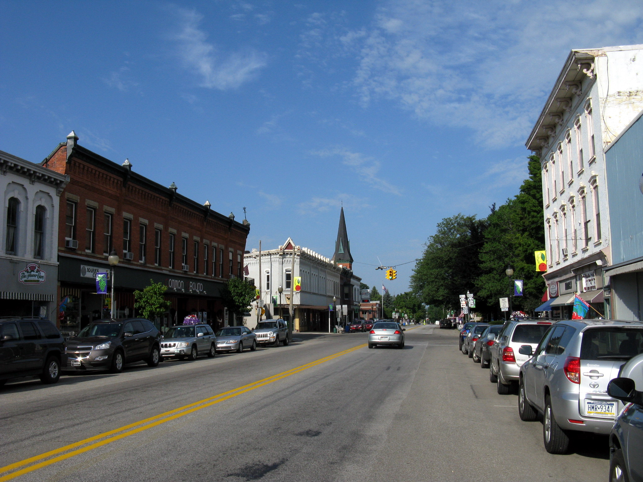 Looking West down the Main street of North East, PA. This area is listed on the National Register of Historic Places.